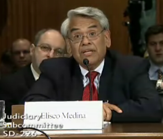 Eliseo Medina, Executive Vice President of the Service Employees International Union, testifying on immigration reform before the Subcommittee on Immigration of the U.S. Senate Judiciary Committee, April 30, 2009.